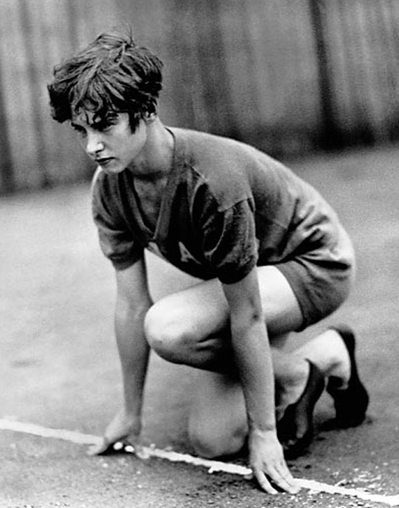 Betty Robinson was the first woman to win an Olympic gold medal in track and field, in the 100-meter race at the 1928 games. She was severely injured in a plane crash, but came back to win another gold in 1936.